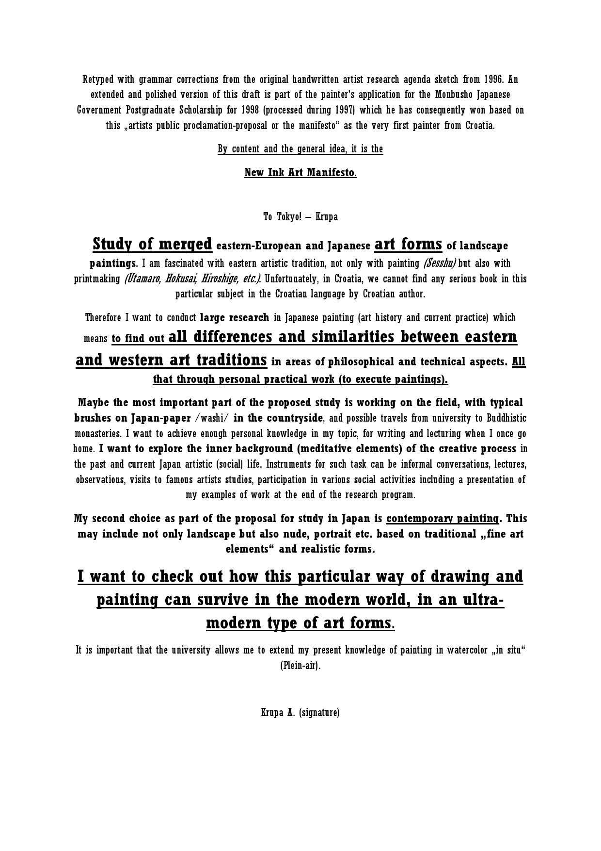 Retyped with grammar corrections from the original handwritten Alfred Freddy Krupa research agenda sketch from 1996. An extended and polished version of this draft is part of the painter's application for the Monbusho Japanese Government Postgraduate Scholarship for 1998 (processed during 1997) which he has consequently won based on this „artists public proclamation-proposal or the manifesto“ as the very first painter from Croatia. By content and the general idea, it is the New Ink Art Manifesto.